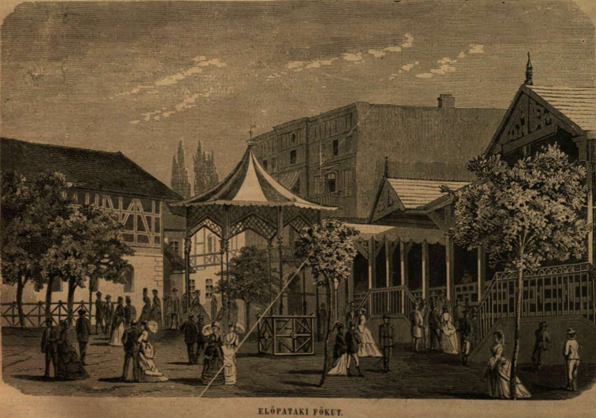 Előpatak (public baths)